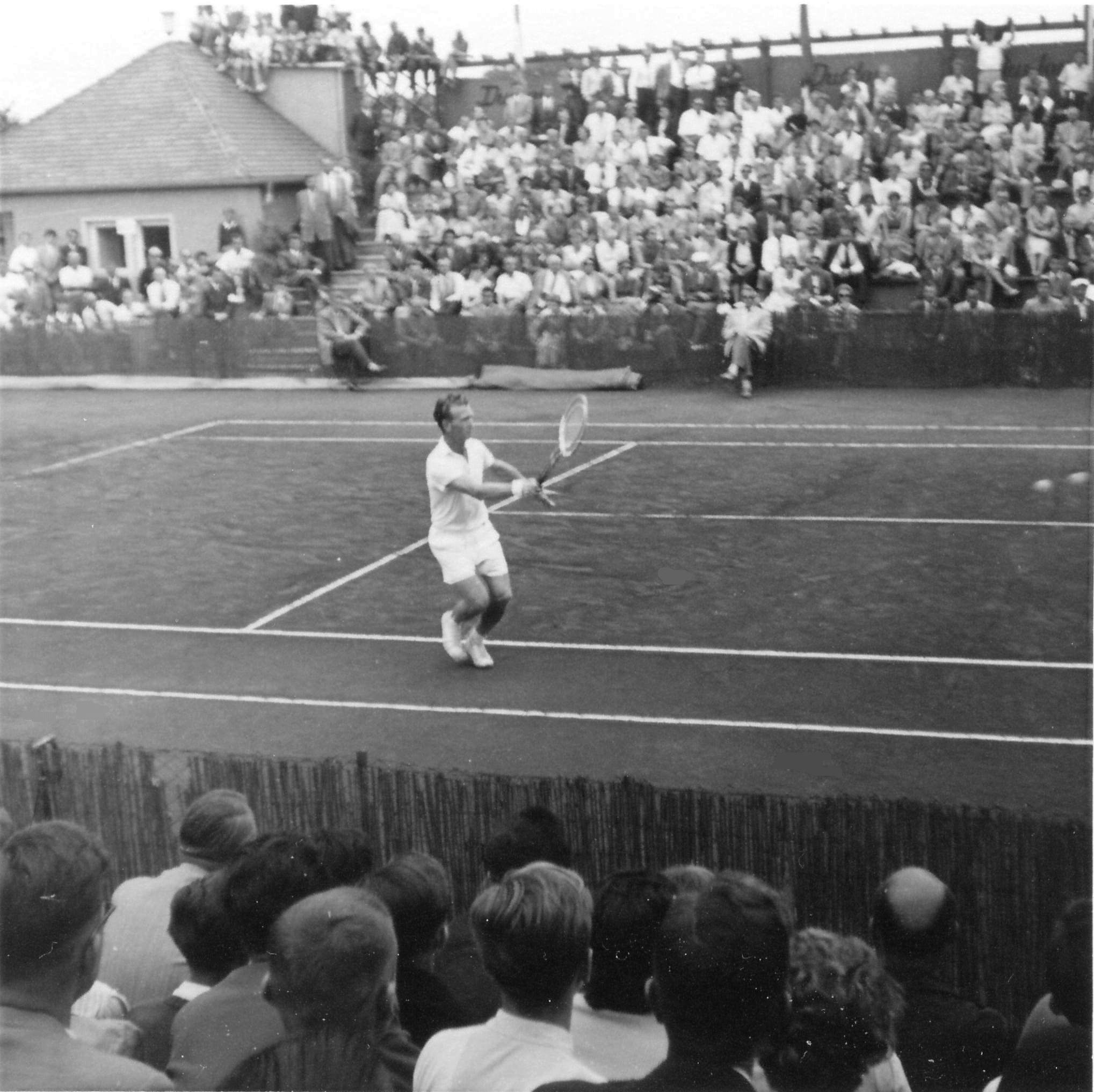 Jack Arkinstall at the International Tennis Tournament for the Golden Glove, Erlangen in july 1955 - Organizer TC Rot-Weiß Erlangen eV